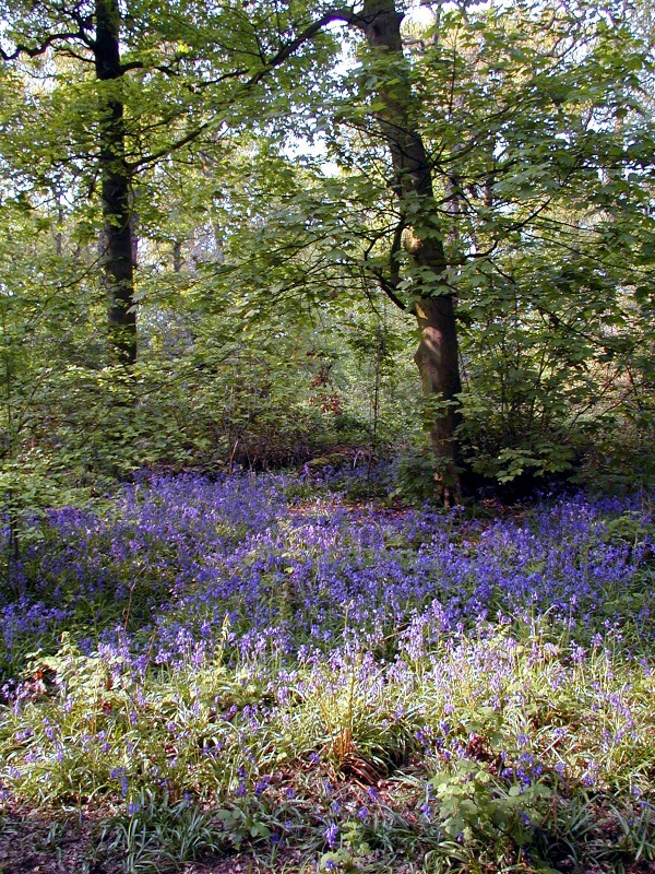 Chaddesden Wood, April 2007. Photographer: James Gibbon